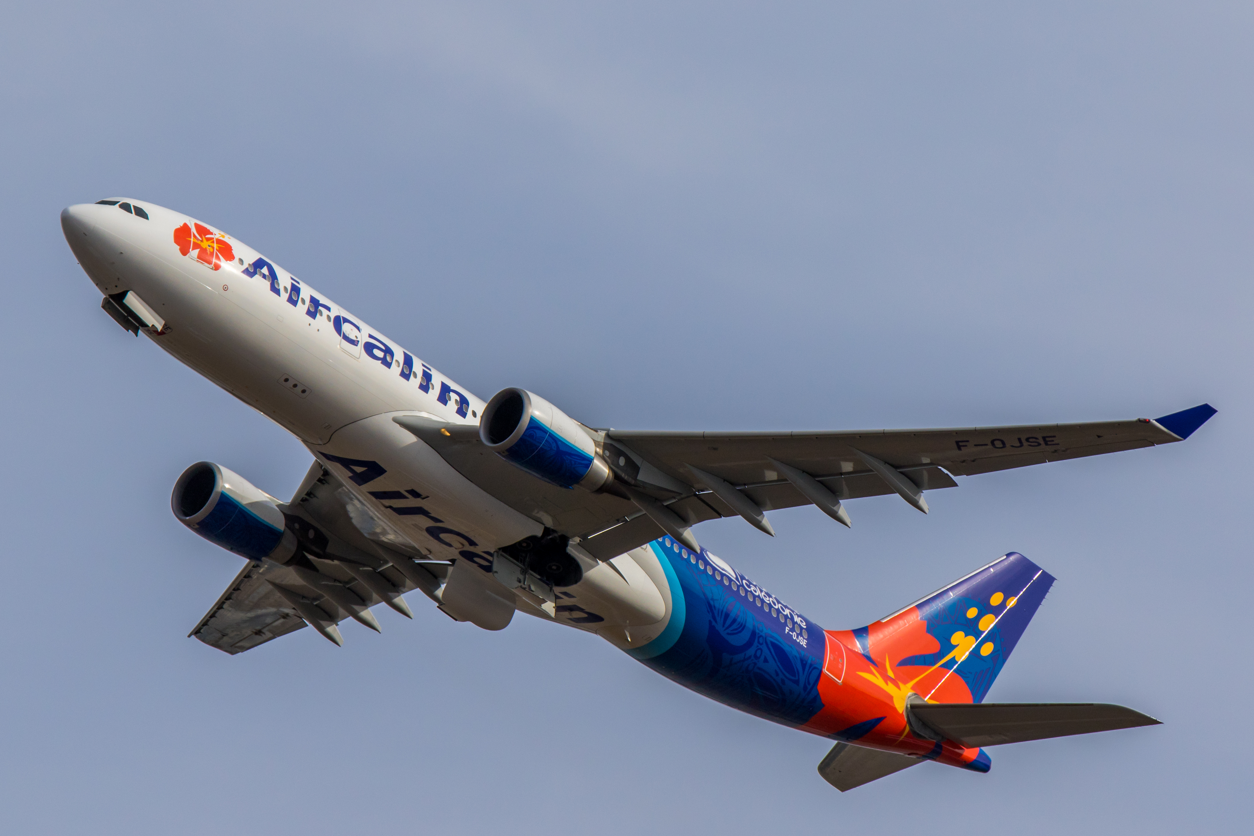 Aircalin Airbus A330-202 F-OJSE departing Narita